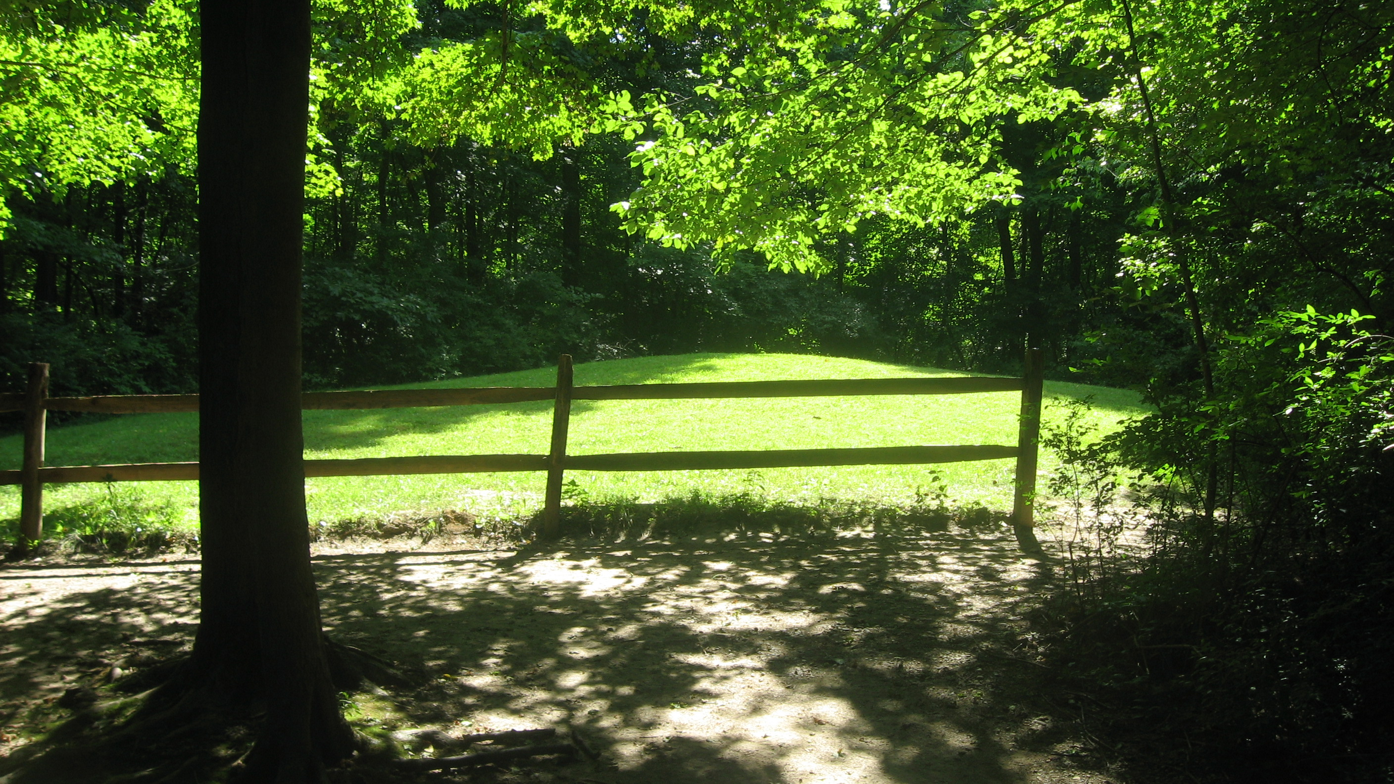 Overview of one of the two Highbanks Metropolitan Park Mounds, located within Highbanks Metropark in Orange Township, Delaware County, Ohio, United States. Built by people of the Adena culture, this and the other mound (located ½ mile to the north) are archaeological sites and have been listed together on the National Register of Historic Places.